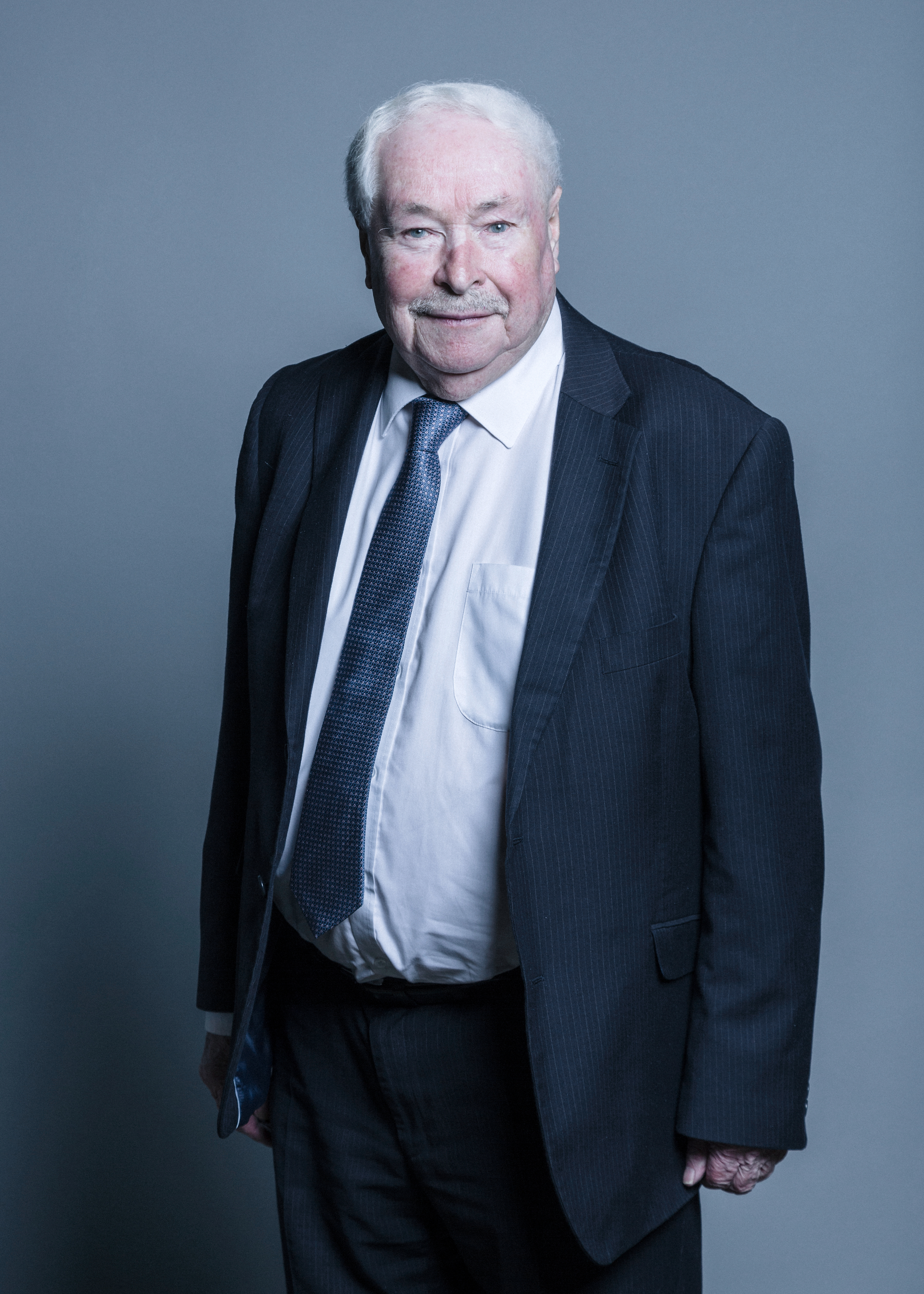 Official portrait of Lord Hoyle